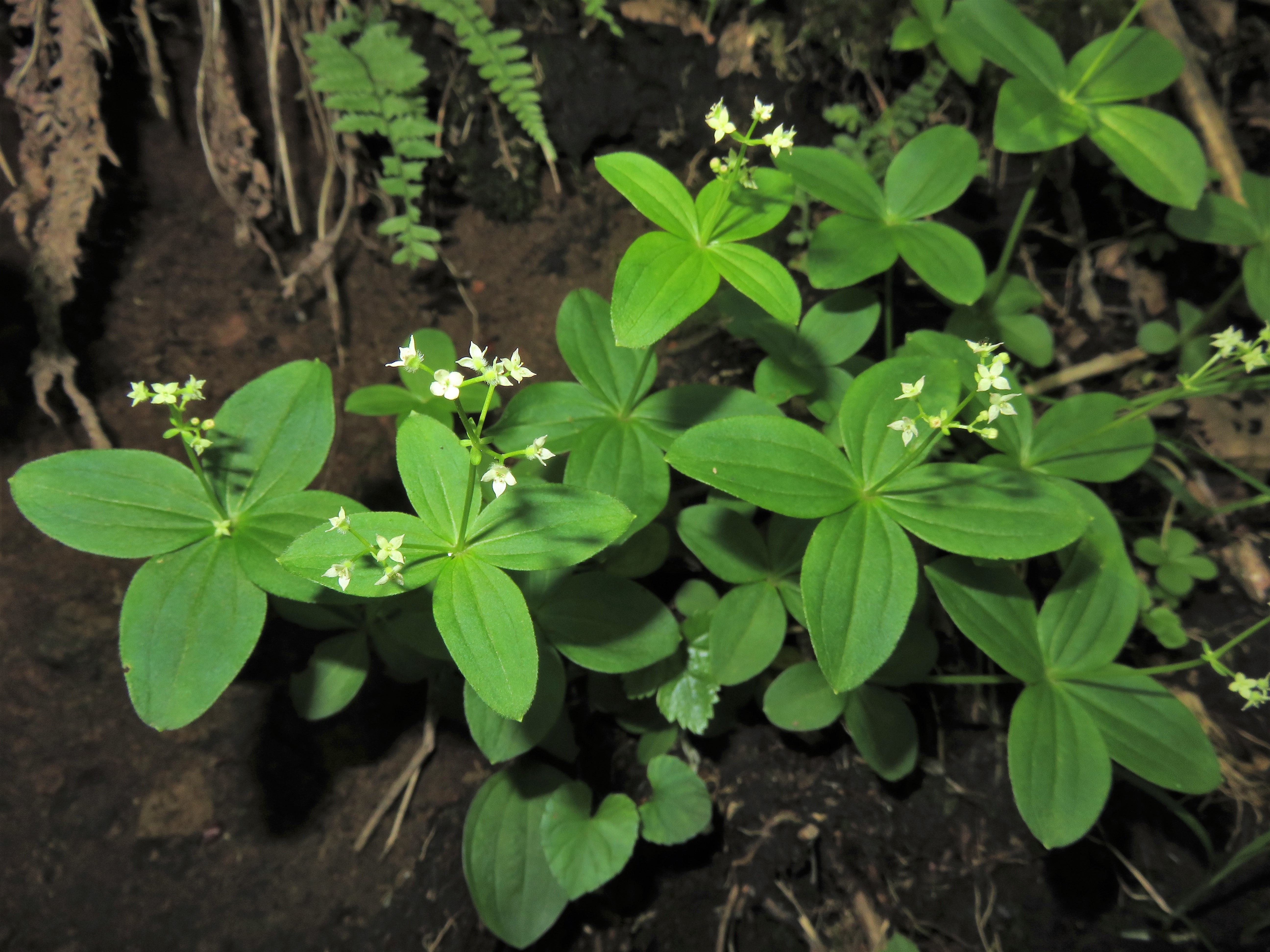 Galium kamtschaticum var. acutifolium , Aizu area, Fukushima pref., Japan